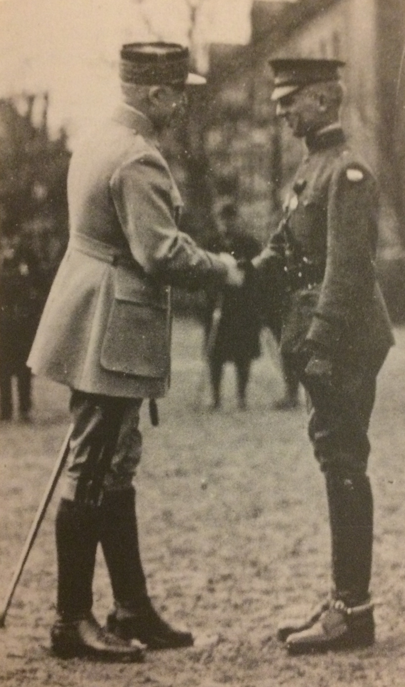 Lesley J. McNair receives Legion of Honor from Marshal Petain, 1919.